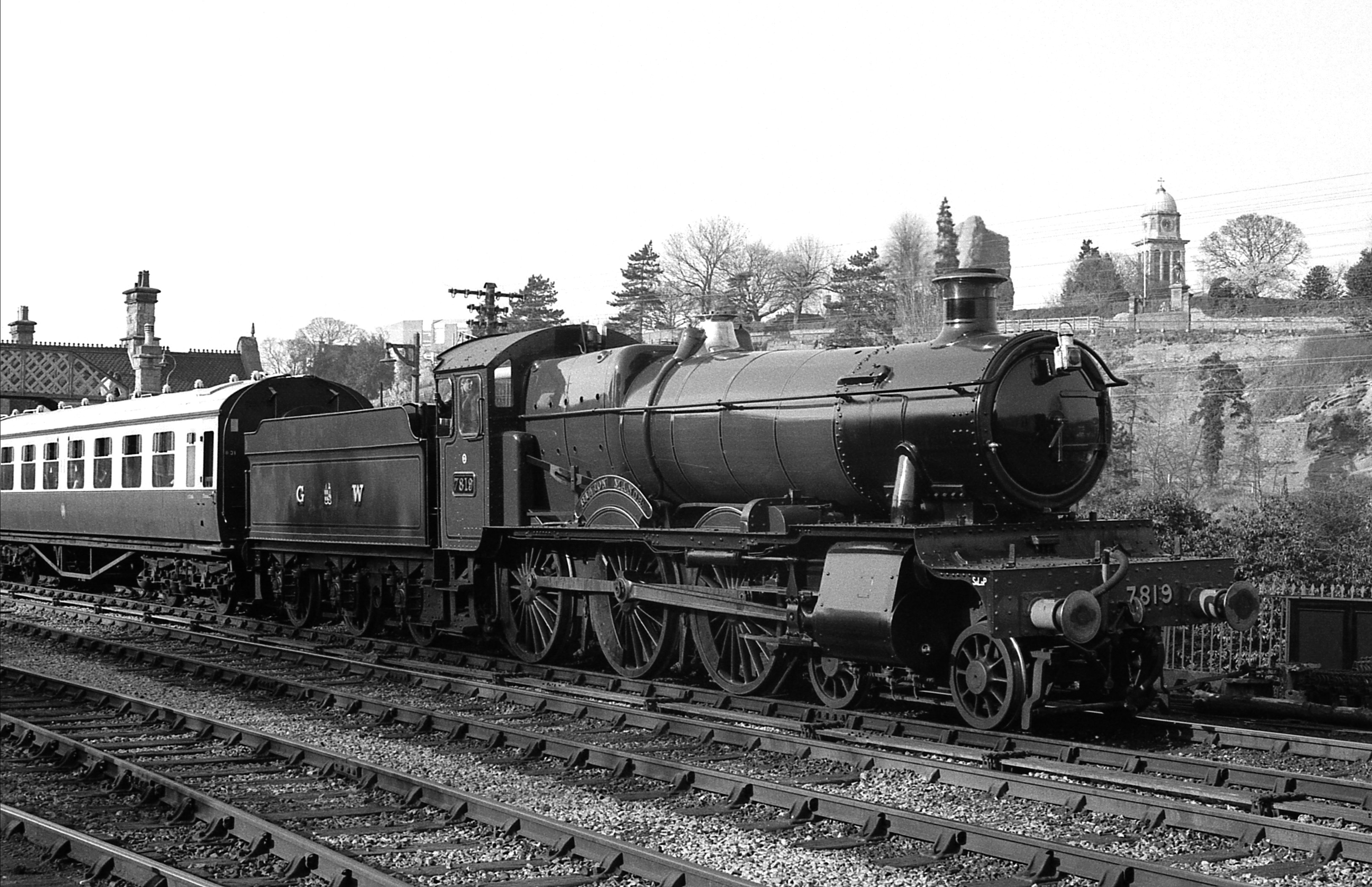 Spotless Severn Valley Railway preserved 'Manor' class 4-6-0 No. 7819 "Hinton Manor" awaiting departure from Bridgnorth with a train for Bewdley and Kidderminster. Camera: Olympus OM1 35mm SLR. Film: Kodak.